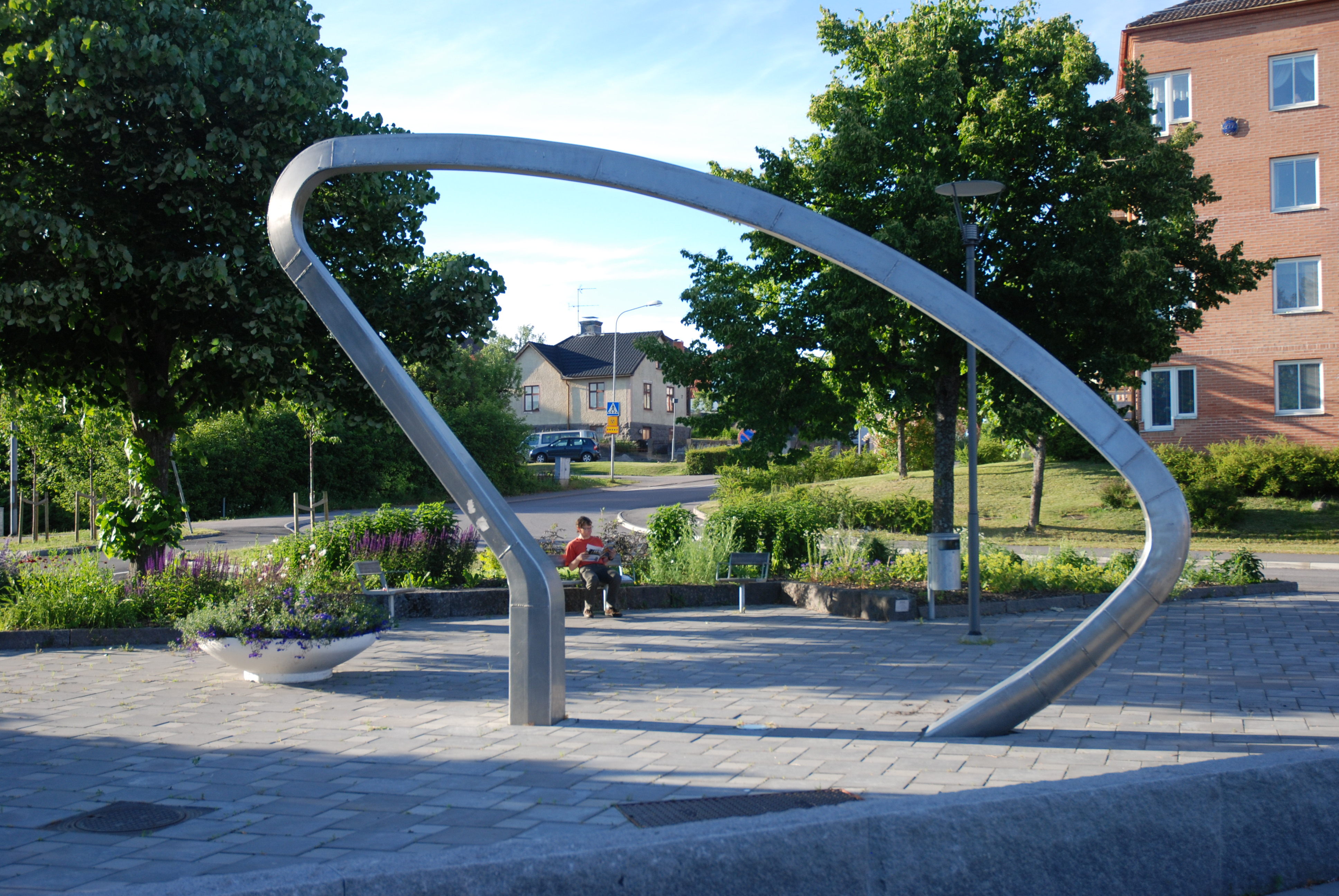 Agneta Stening´s Båge (Arch), aluminum, Finspång, Sweden